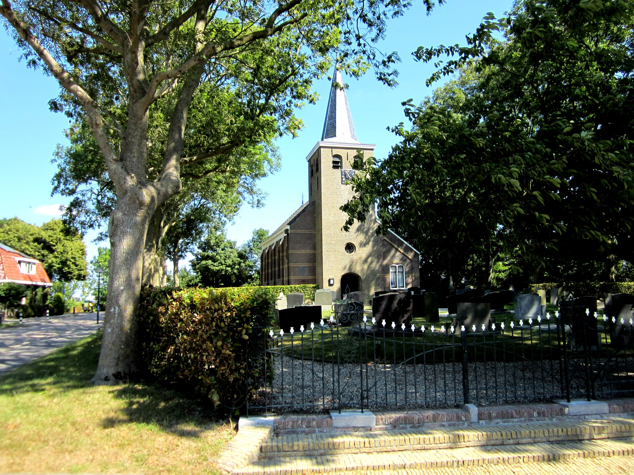 The village church of Hitzum (Frisian: Hitsum), Friesland, the Netherlands.